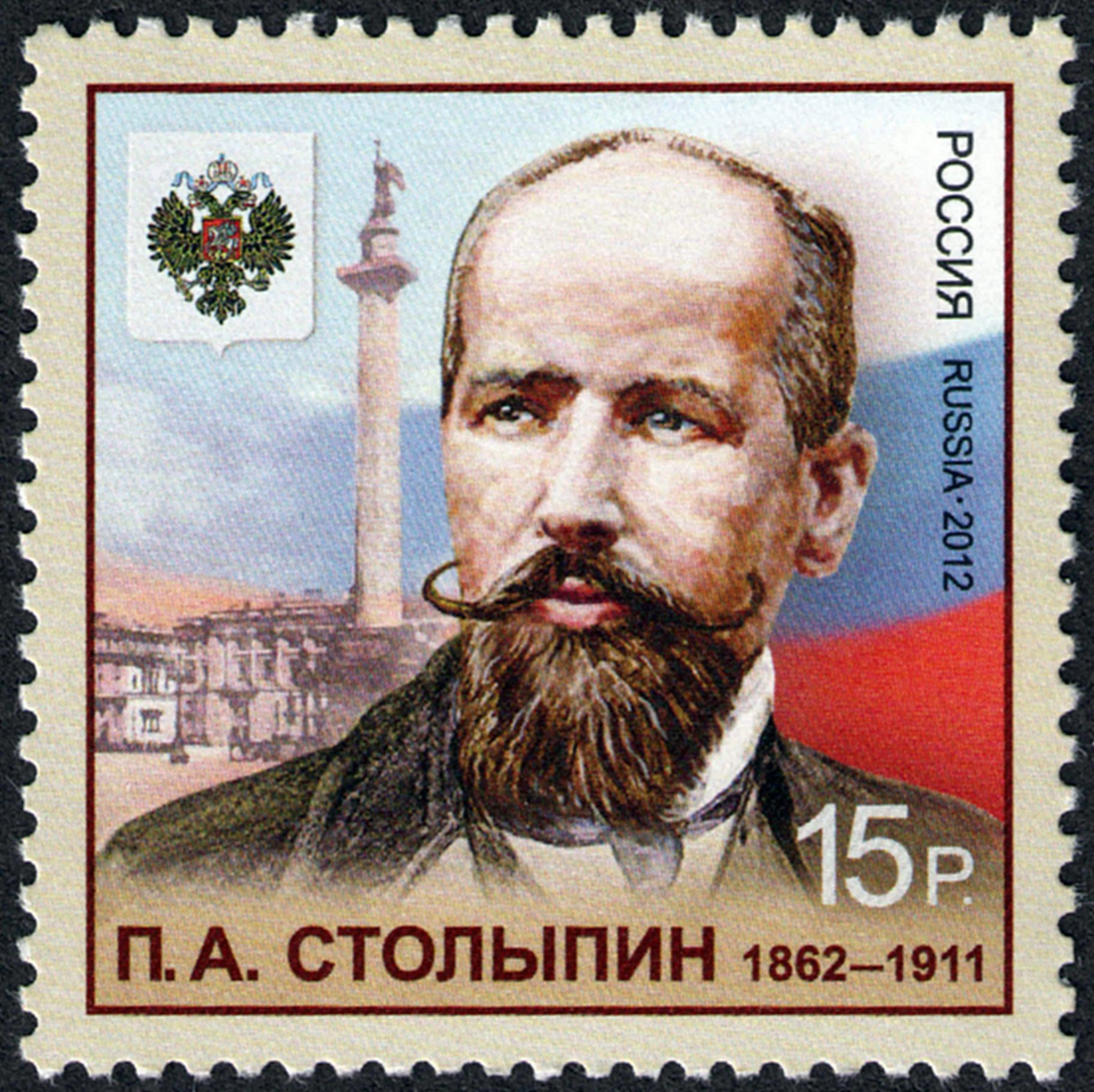 150th birth anniversary of Pyotr Stolypin (1862 – 1911), a Russian statesman, the Governor of Saratov Guberniya (1903–1906), the Minister of Interior of Russian Empire (1906–1911), the Chairman of the Council of Ministers of Russian Empire (1906–1911).The portrait of Pyotr Stolypin against the view of the Palace Square in Saint Petersburg and the flag of Russia; the lesser coat of arms of Russian Empire on the top left. The stamp of Russia, 15 Rubles, 6 April 2012, PTC Marka Catalogue No 1568, Michel No 1800. Coated paper. Offset printing. Perforation: comb 11½:11½. Size of the stamp: 37×37 mm. Print run: 378,000.